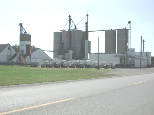 Grain elevator near London, Ontario, Canada